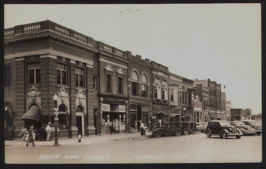 Buildings along 4th street, facing the courthouse